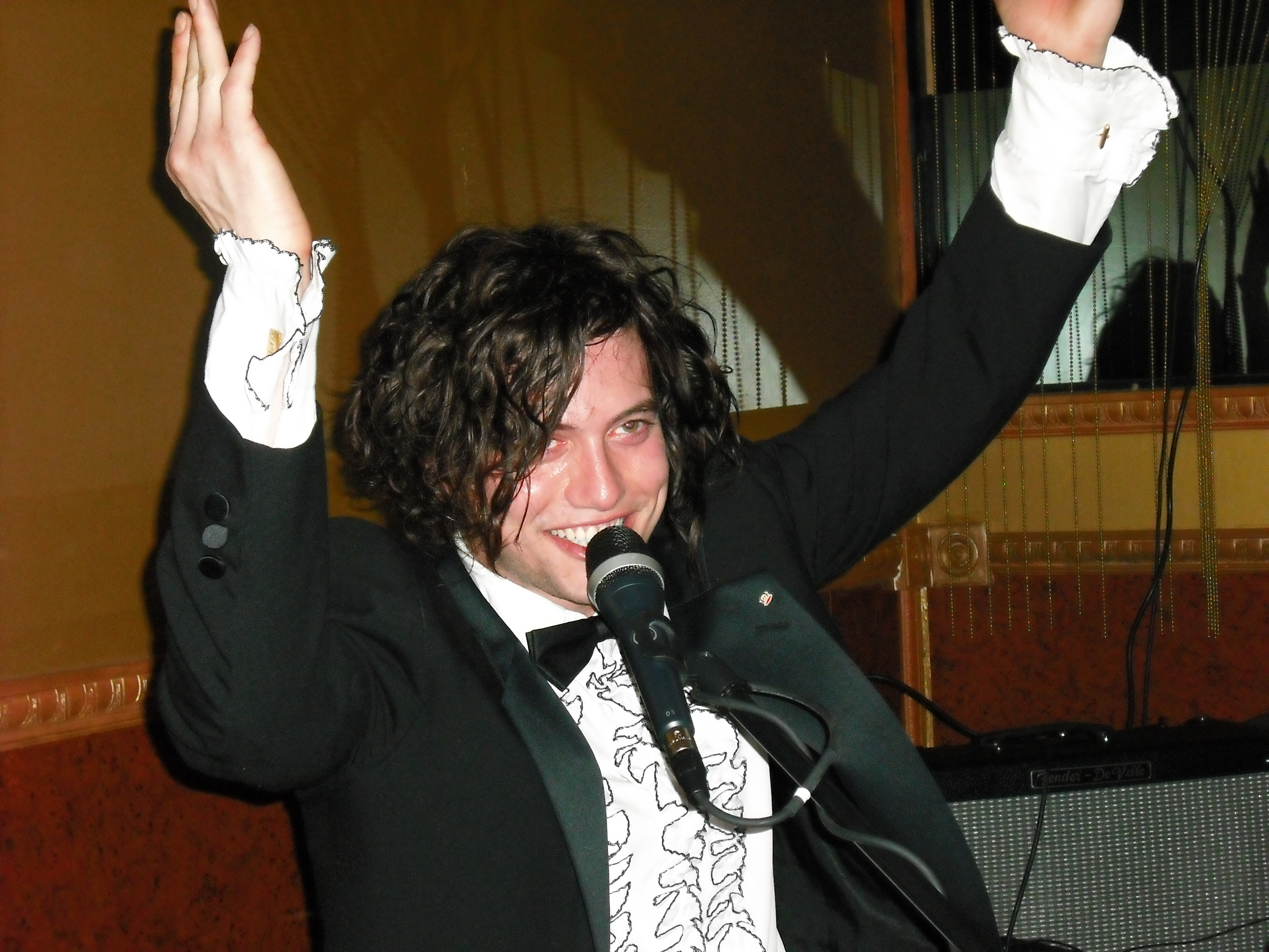 Jackson Rathbone, American actor and singer, 100 Monkeys concert at the 24K lounge (West Hollywood, California)